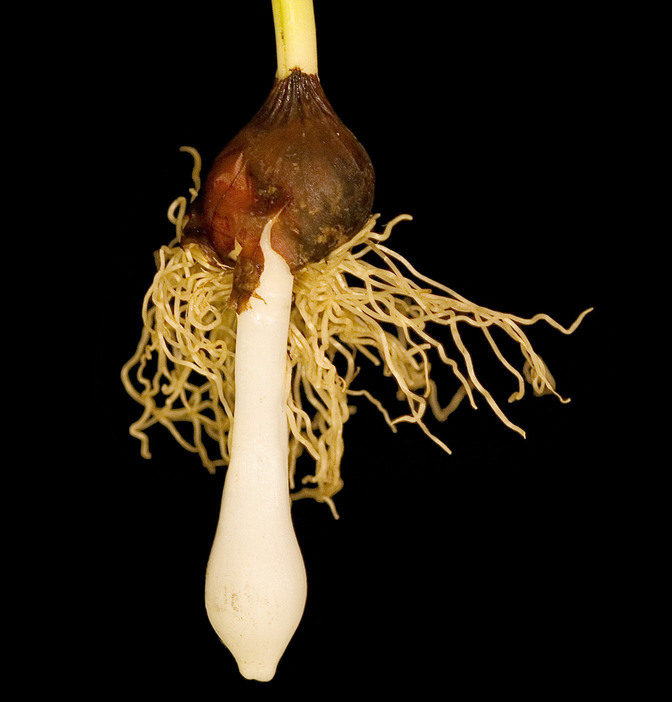 A bulb of a tulip. During rapid spring growth, the bulb exhausts its stored nutrients and shrinks in size. A white stolon, carrying the bud of a new bulb, bursts through the base of the old bulb and drives the bud deeper into the soil. By the end of spring season the old bulb will be reduced to dry dead sheaths; the new bulb will be ready for re-planting in the end of summer. This type of bulb reproduction is typical for immature tulips; only a few species like T.praestans continue it after first blooming.